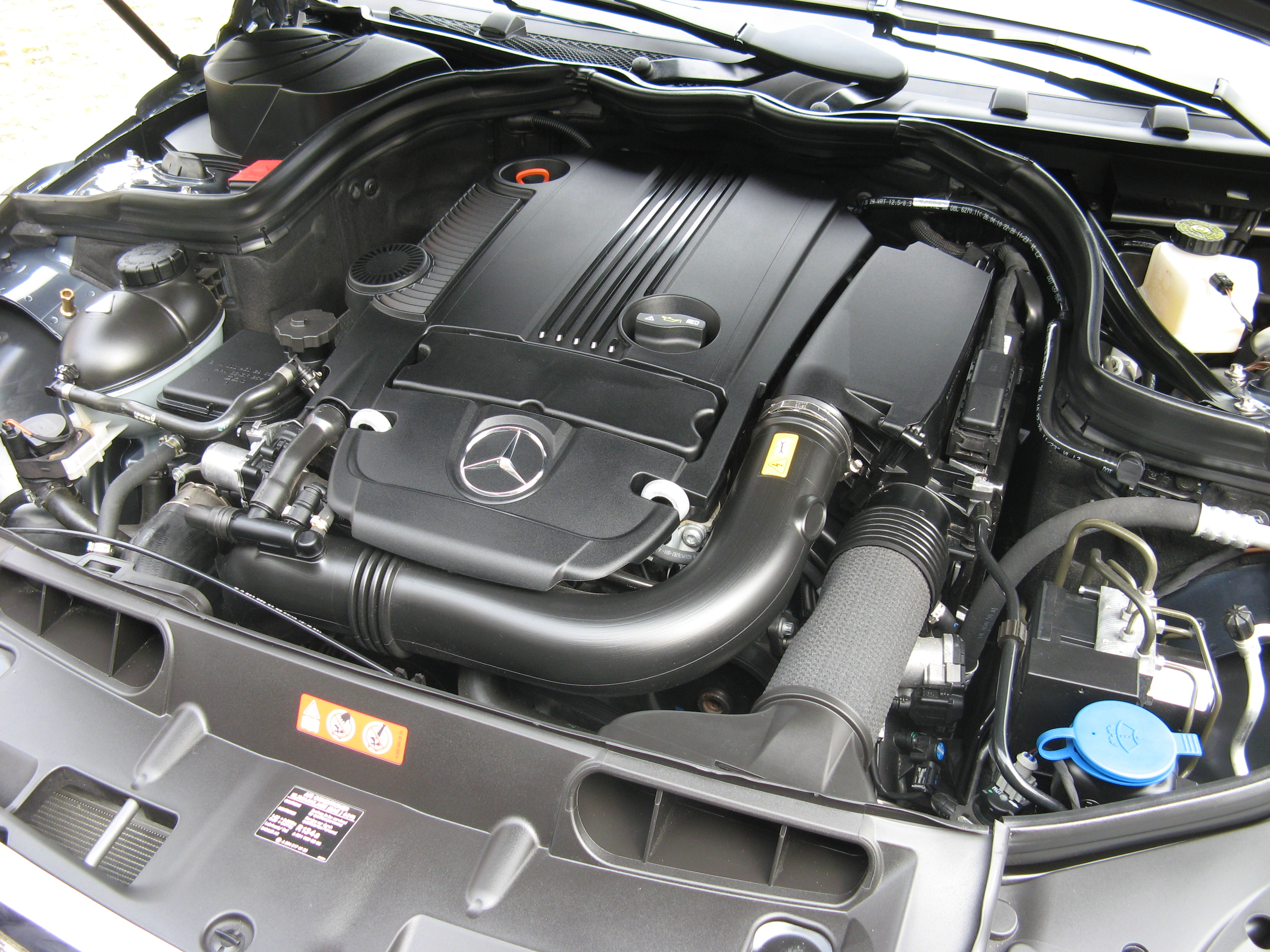 Mercedes-Benz M271 EVO engine type M 271 DE 18 AL